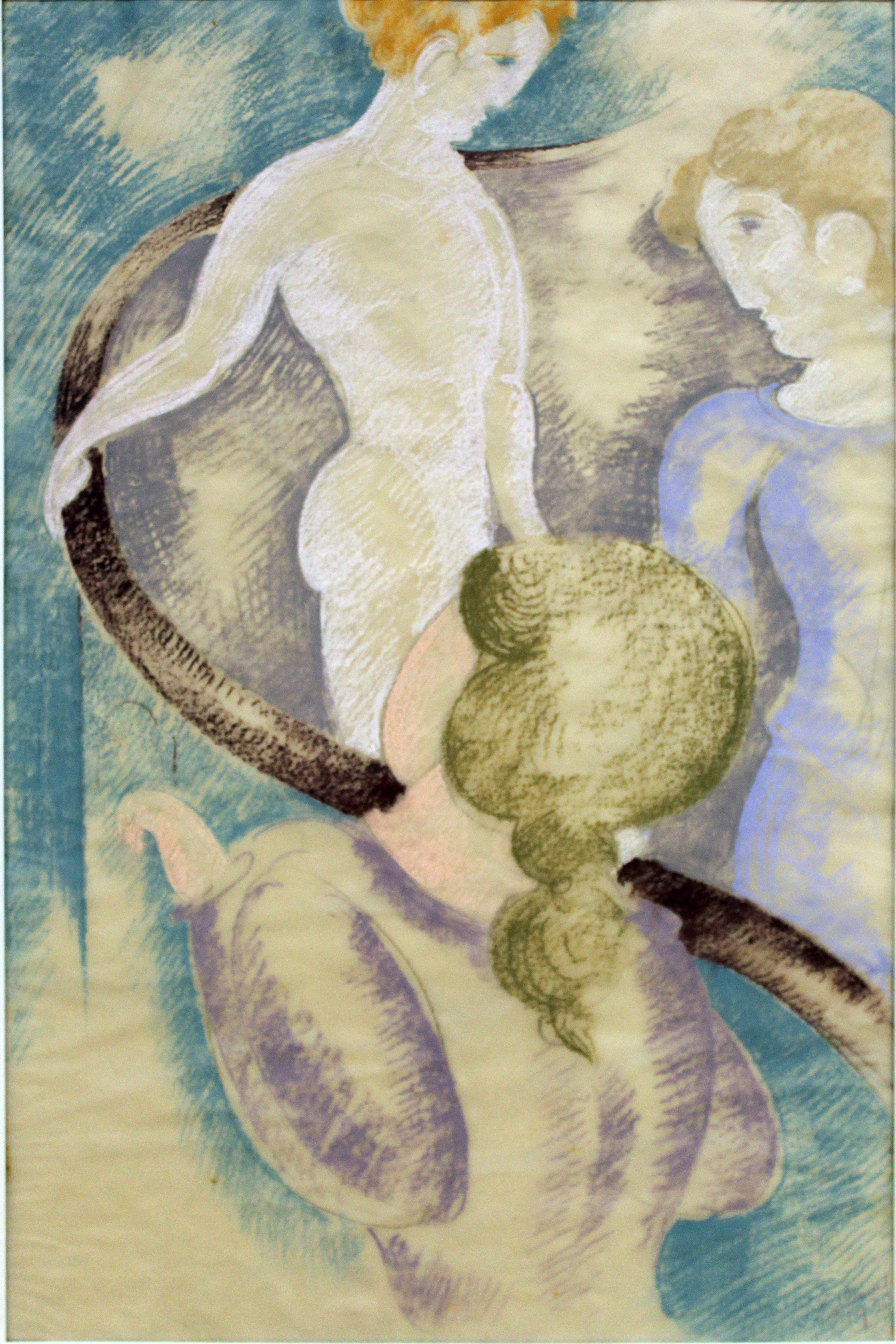 Three Figures at the Balustrade II